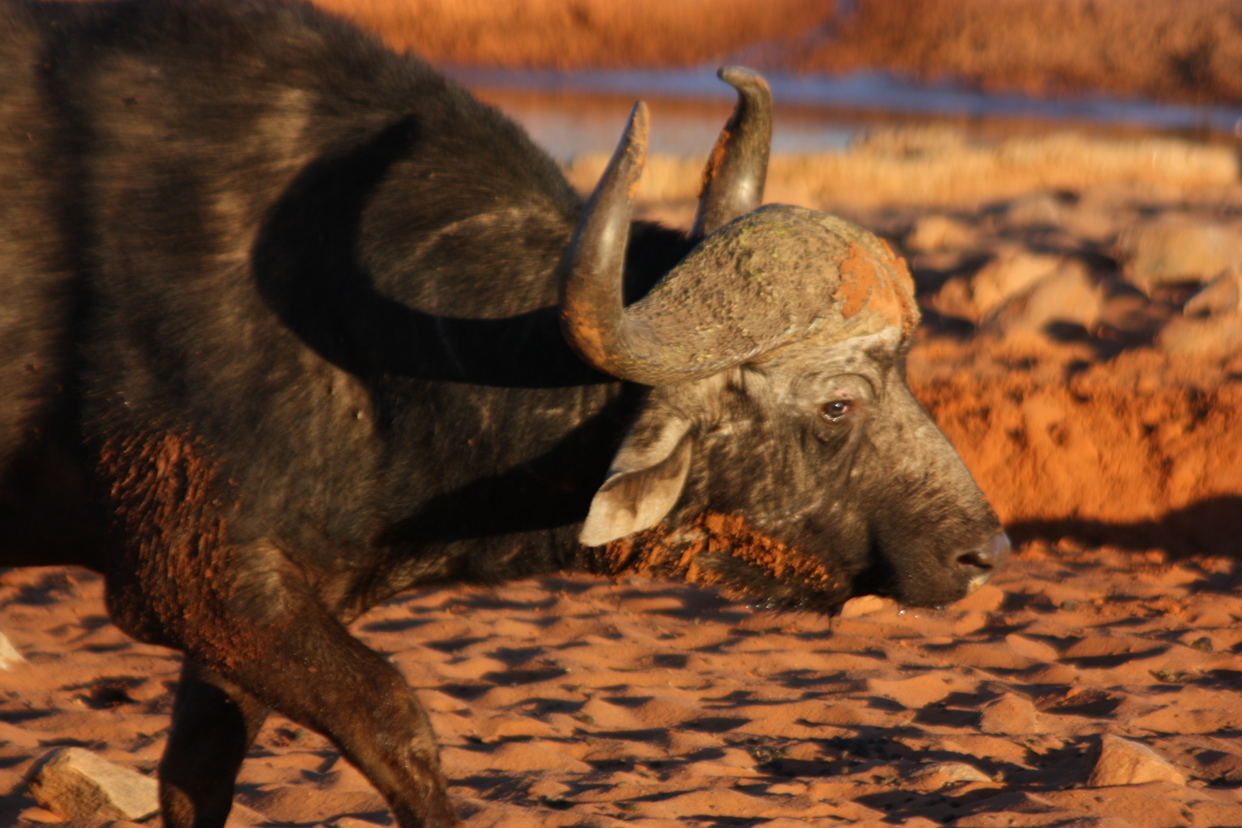 Buffalo (syncerus caffer) in the Kalahari desert, South Africa